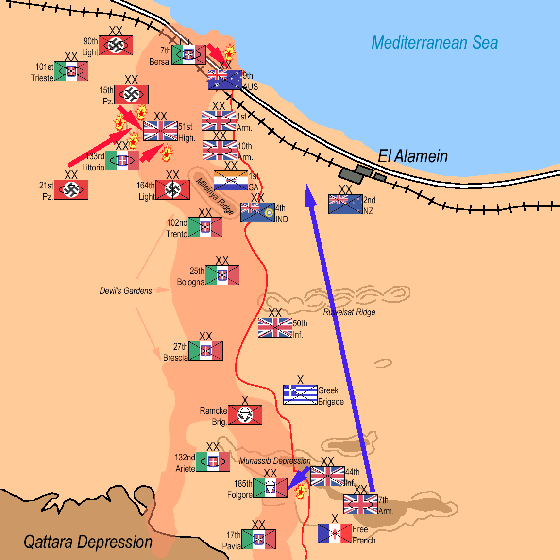 Second Battle of El Alamein: 21st Panzer Division, 15th Panzer Division and Littorio Armoured Division attack 51st Highland Division, but fail to retake Kidney Ridge: 8am October 27th, 1942. 7th Bersaglieri Regiment tries unsuccessfully to dislodge Australian 9th Division from Hill 28: 10am October 27th, 1942. 44th Infantry Division probes Folgore Parachutist Divisions defences: October 27th, 1942. 7th Armoured Division moves north: October 27th, 1942.